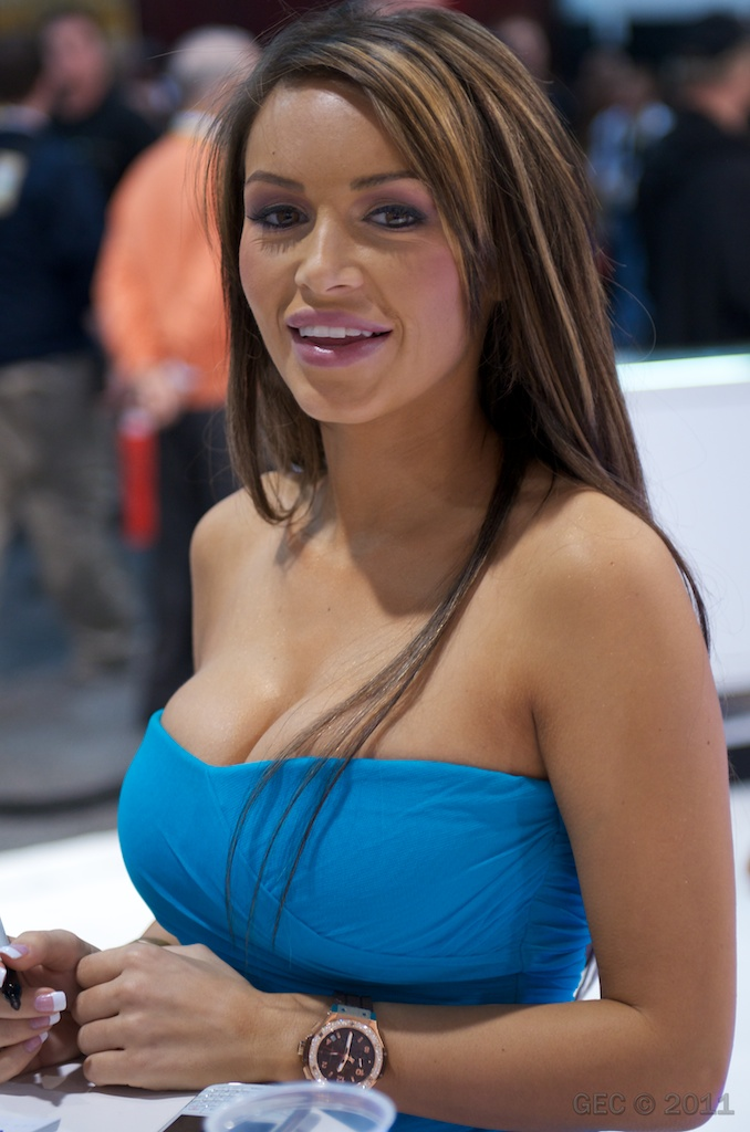 2011 AVN Adult Entertainment Expo (AEE) - Las Vegas Sands Center.